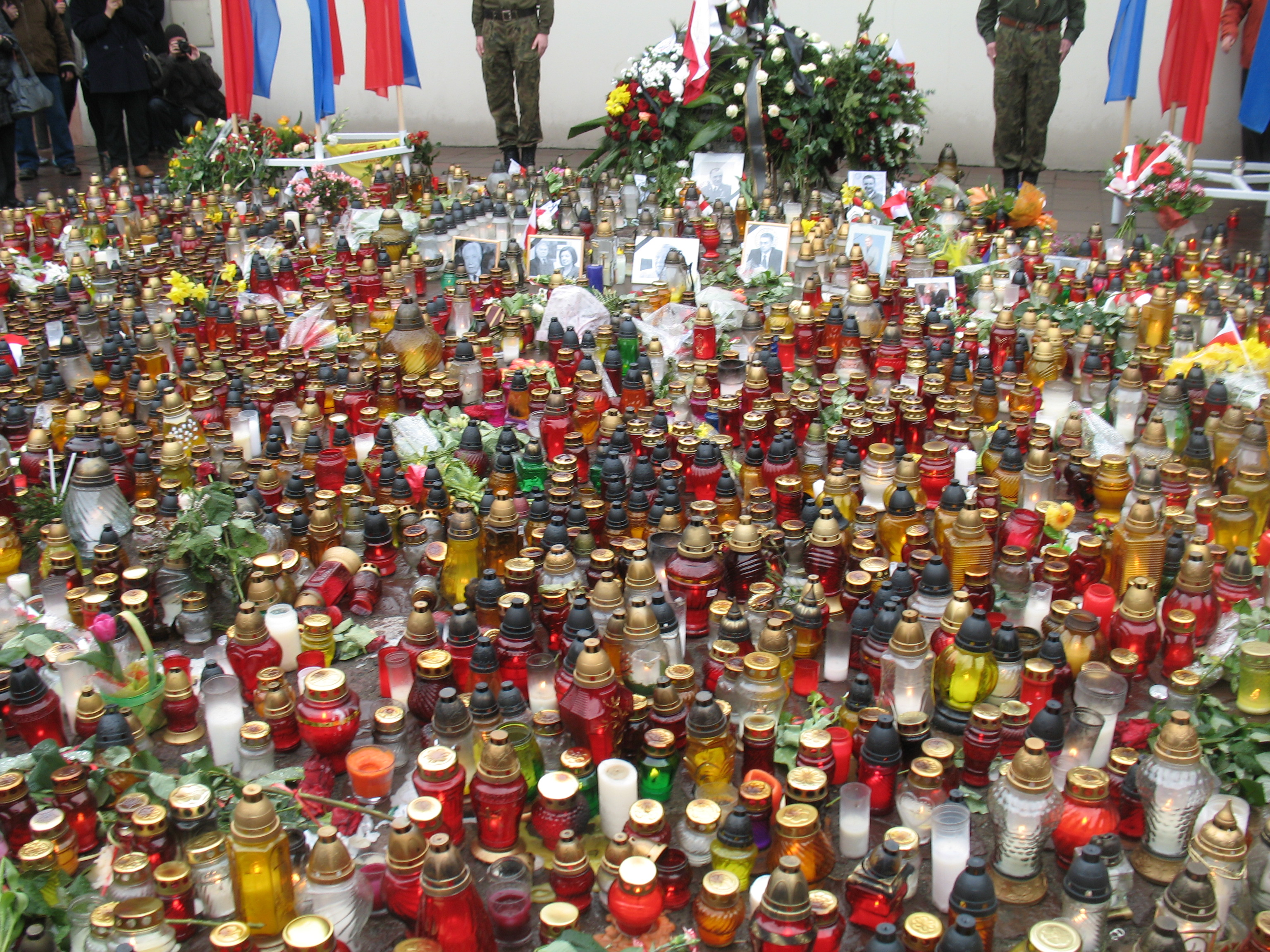 Cracow after Polish Air Force One crash. In front of the Katyń Memorial Cross at St. Giles' Church